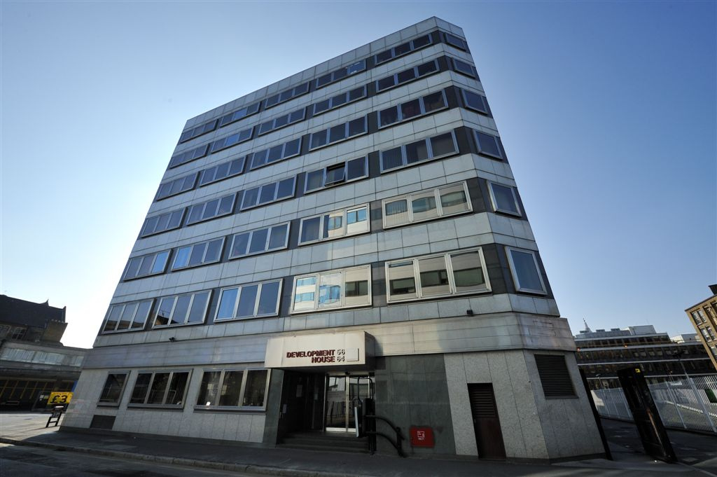 Development House, 56-64 Leonard St, London, Greater London EC2A 4LT.